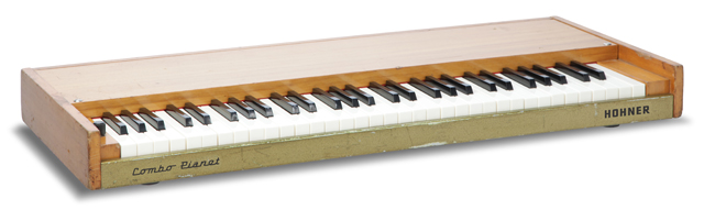 This is an unrestored Hohner Combo Pianet first produced in 1972. This sample was made around 1976 and shows typical evidence of heavy use.